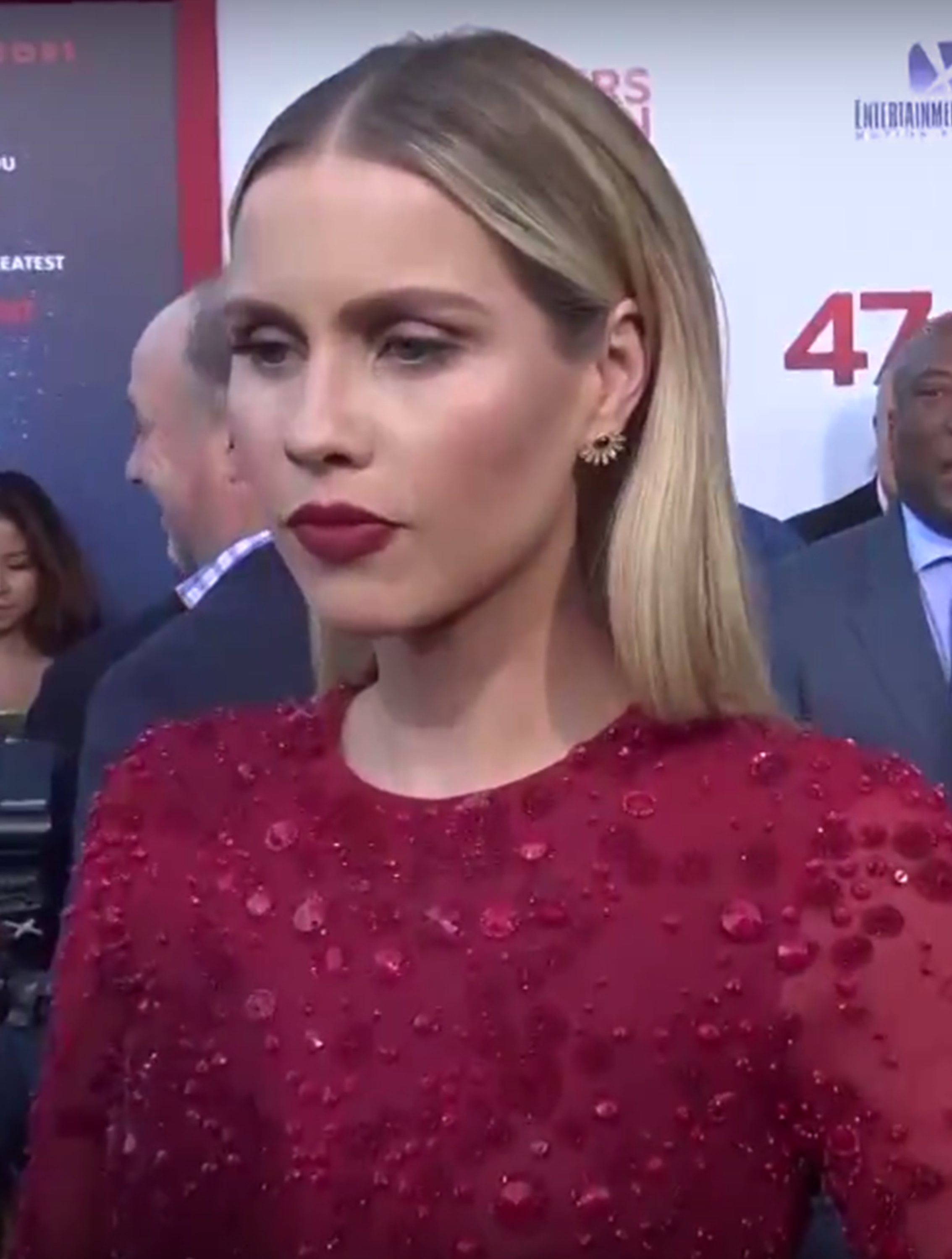 Claire Holt during the premiere of the movie 47 Meters Down on June 14, 2017.